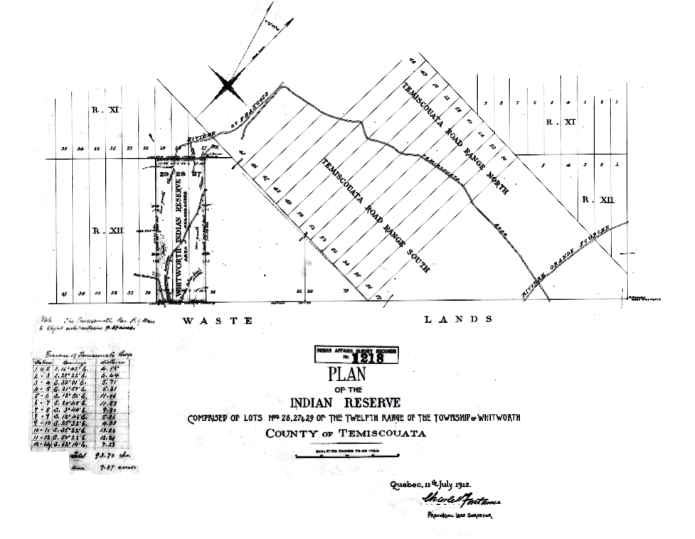 PLAN OF I.R. COMPRISING OF LOTS 27, 28 AND 29, RANGE 12, WITHWORTH TOWNSHIP (FILM). (eng; CAN)